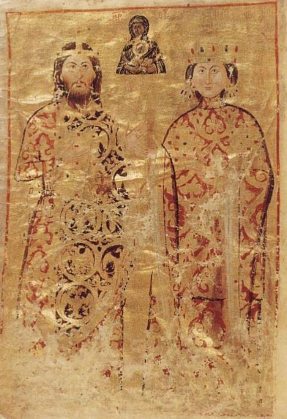 Illuminated donor portrait of the sebastokrator Constantine Palaiologos and his wife Eirene, from the Typikon of the Monastery of Our Lady of Certain Hope ("Lincoln Typicon").